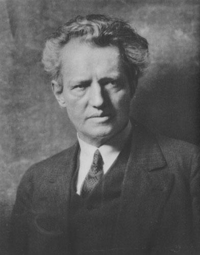 Arnold Genthe self-portrait